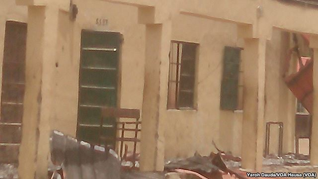 Destruction photographed by the VOA, after the Chibok kindap in April 2014.